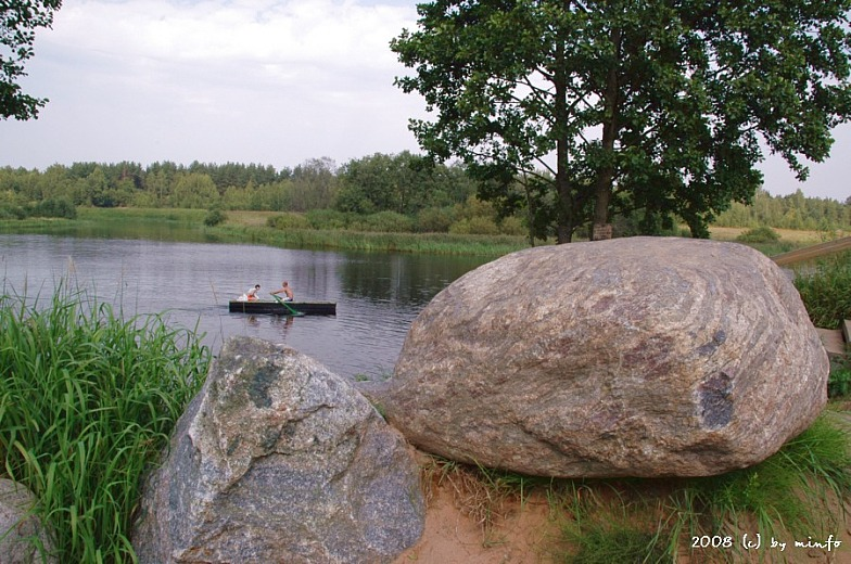 Russia. Tverskaya Oblast. River Orsha